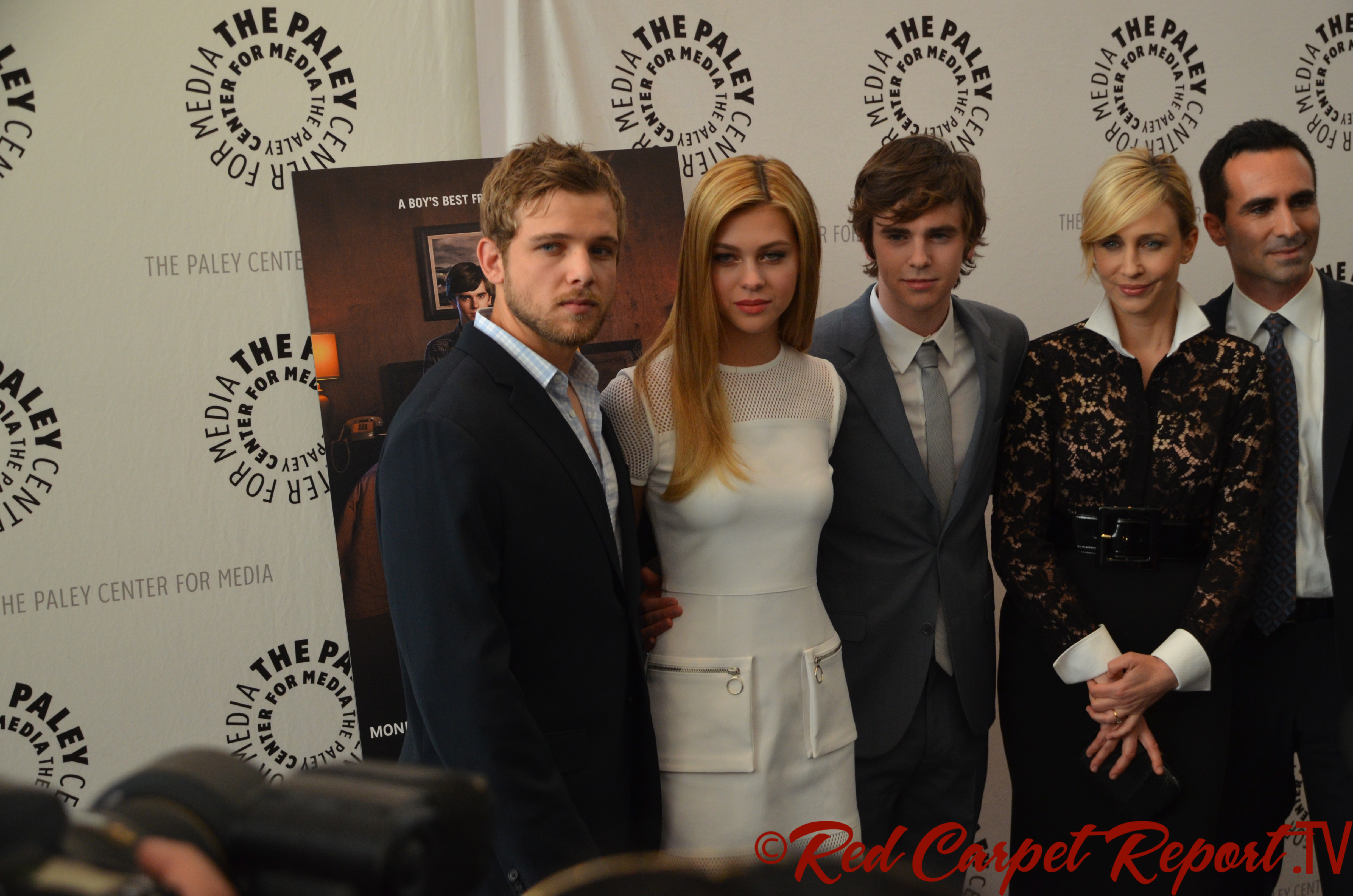 Mingle Media TV and Red Carpet Report correspondent, Ashim Ahuja, were invited to cover the Bates Motel: Reimagining a Cinema Icon at The Paley Center for Media in Beverly Hills. The panel portion of the event was streamed live and will feature executive producer Carlton Cuse, executive producer Kerry Ehrin, Vera Farmiga, Freddie Highmore, Max Thieriot, Nestor Carbonell, Olivia Cooke and Nicola Peltz, in conversation with Shawn Ryan. Get the Story from the Red Carpet Report Team - follow us on Twitter and Facebook at: A&E Network's Bates Motel is inspired by Hitchcock's genre-defining film, Psycho. The series is a contemporary prequel that gives an intimate portrayal of how Norman Bates' psyche unravels through his teenage years and just how deeply intricate his relationship with his mother, Norma, truly is. A&E's March 2013 premiere of Bates Motel garnered 4.5 million total viewers and 2.5 million adults 25-54 and 18-49, based on Live+7 viewership, making it the most-watched original drama debut in the key demos in the network's history. For more of Mingle Media TV's Red Carpet Report coverage, please visit our website and follow us on Twitter and Facebook here: About The Paley Center for Media: The Paley Center for Media seeks to preserve the past, illuminate the present, and envision the future through the lens of media. With the nation's foremost public archive of television, radio and Internet programming, the Paley Center produces programs and forums for the public, industry professionals, thought leaders, and the creative community to explore the evolving ways in which we create, consume, and share news and entertainment. In an era of unprecedented change, the Paley Center advances the understanding of media and its impact on our lives. The Paley Center for Media was founded in 1975 by William S. Paley, a pioneering innovator in the industry. For more information, please visit For more Ashim, follow him at